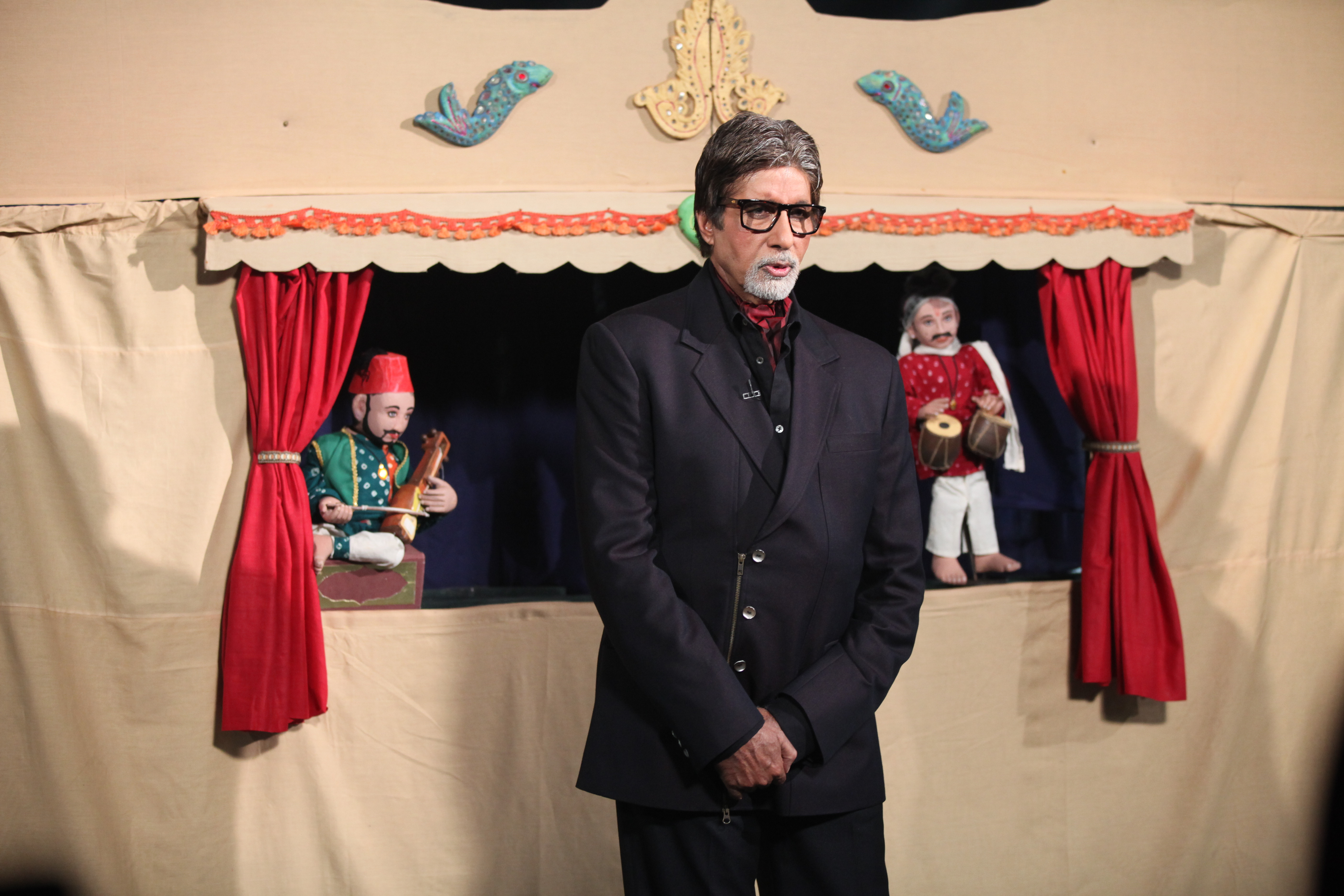 Amitabh Bachchan presenting the 150 Years Old Puppets of Ramdas Padhye which was presented on the show by son Satyajit Padhye